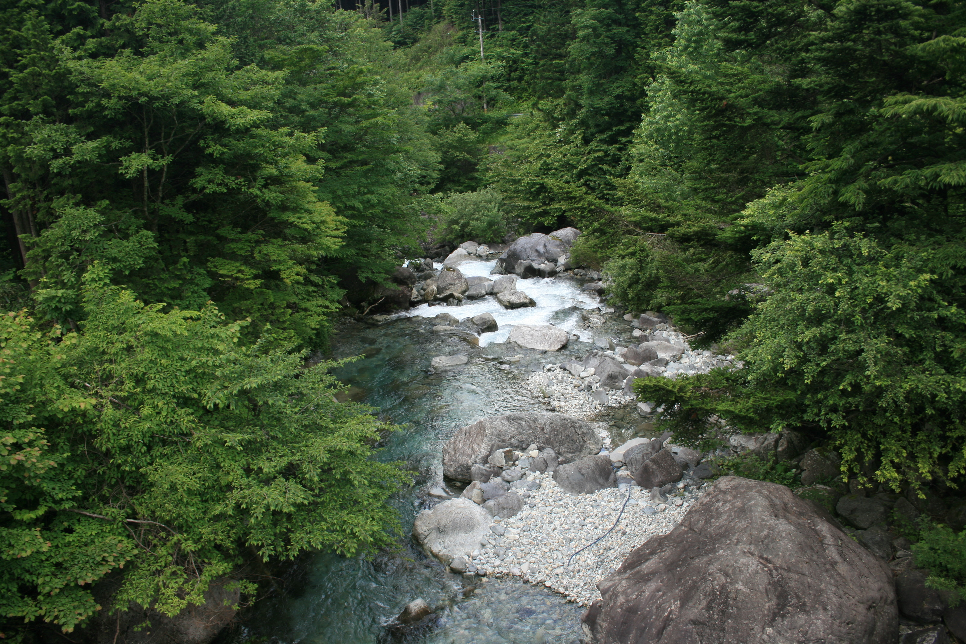 Kashimo river in Otome Ravine(Otome-keikoku), in Kashimo, Nakatsugawa, Gifu prefecture, Japan.